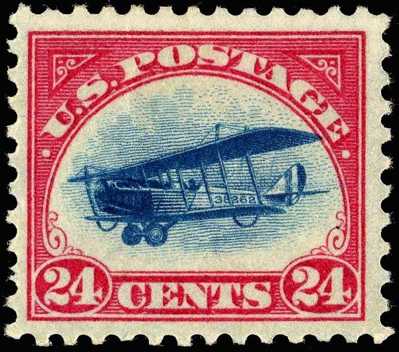 24-cent 1924 air mail United States postage stamp, depicting the Curtiss Jenny, Scott Catalog number C3;modeled after plane in photo, which bears the same number on its fuselage that's depicted on the stamp